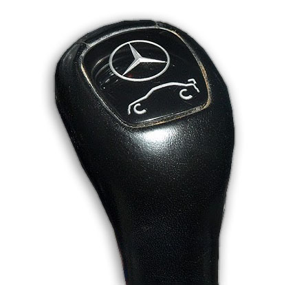 Logo of C-class DTM-Sport limited edition